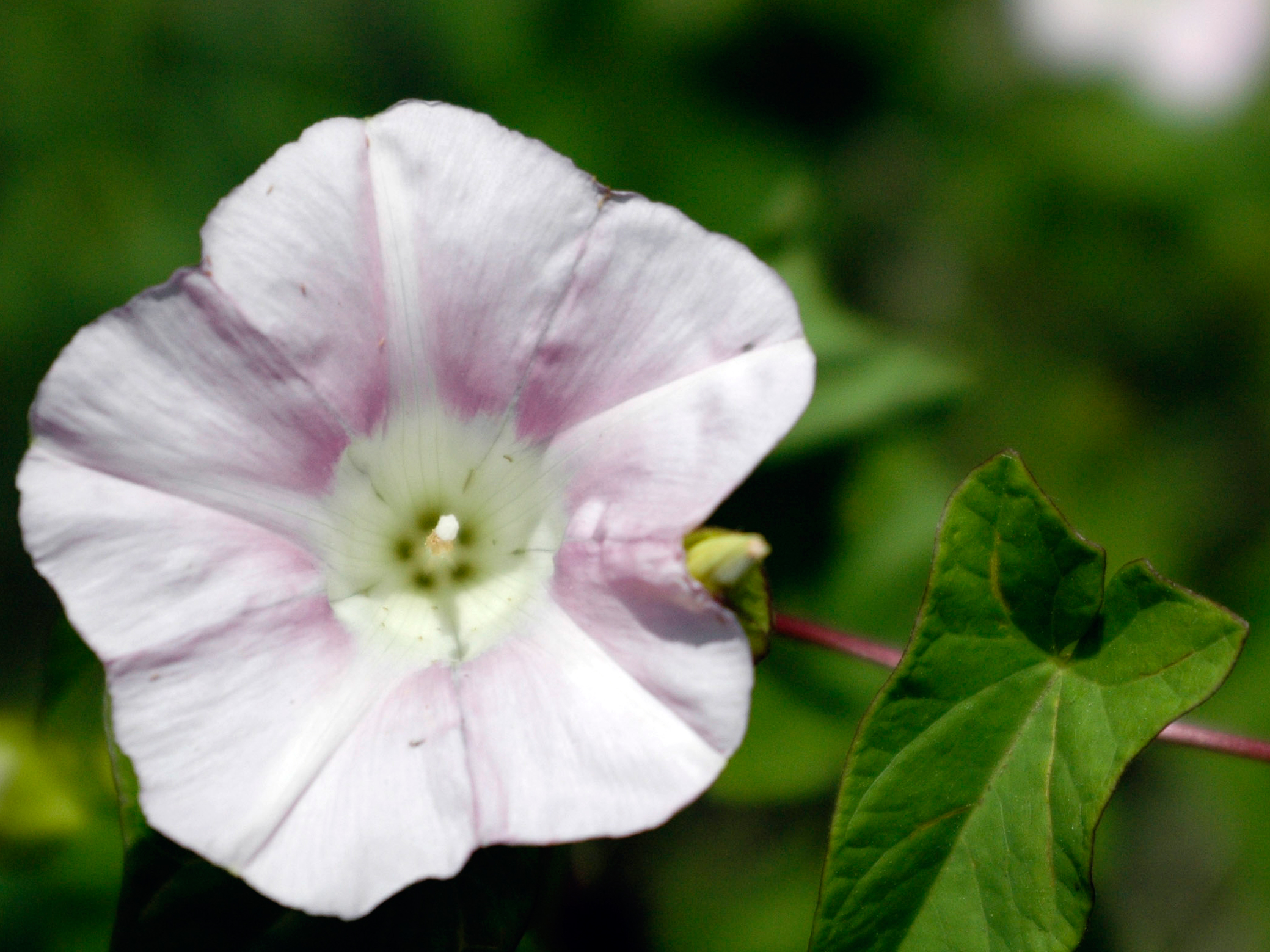 Calystegia sepium (L.) R. Br. ssp. americana (Sims) Brummitt